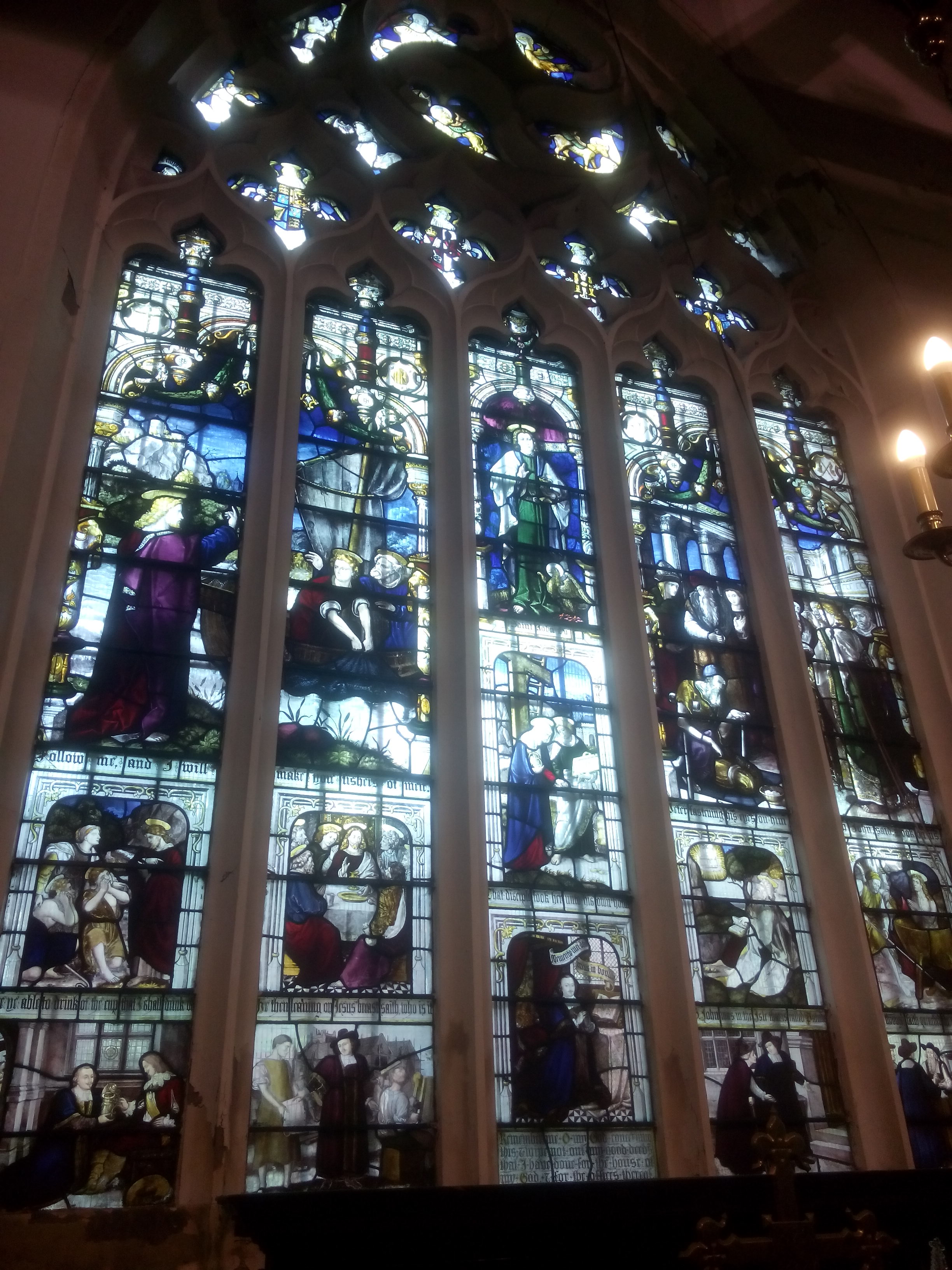 Harrison Memorial Window, St John's Church, Leeds, UK. Painted in 1885 by Burlison and Grylls. The lower half depicts scenes from John Harrison's life. From bottom left: Harrison gives a tankard of coins to the imprisoned King Charles I; the construction of St John's Church; Harrison praying in his study; Harrison helps an old woman into his almshouse; Harrison sets up a market cross on Briggate in Leeds.